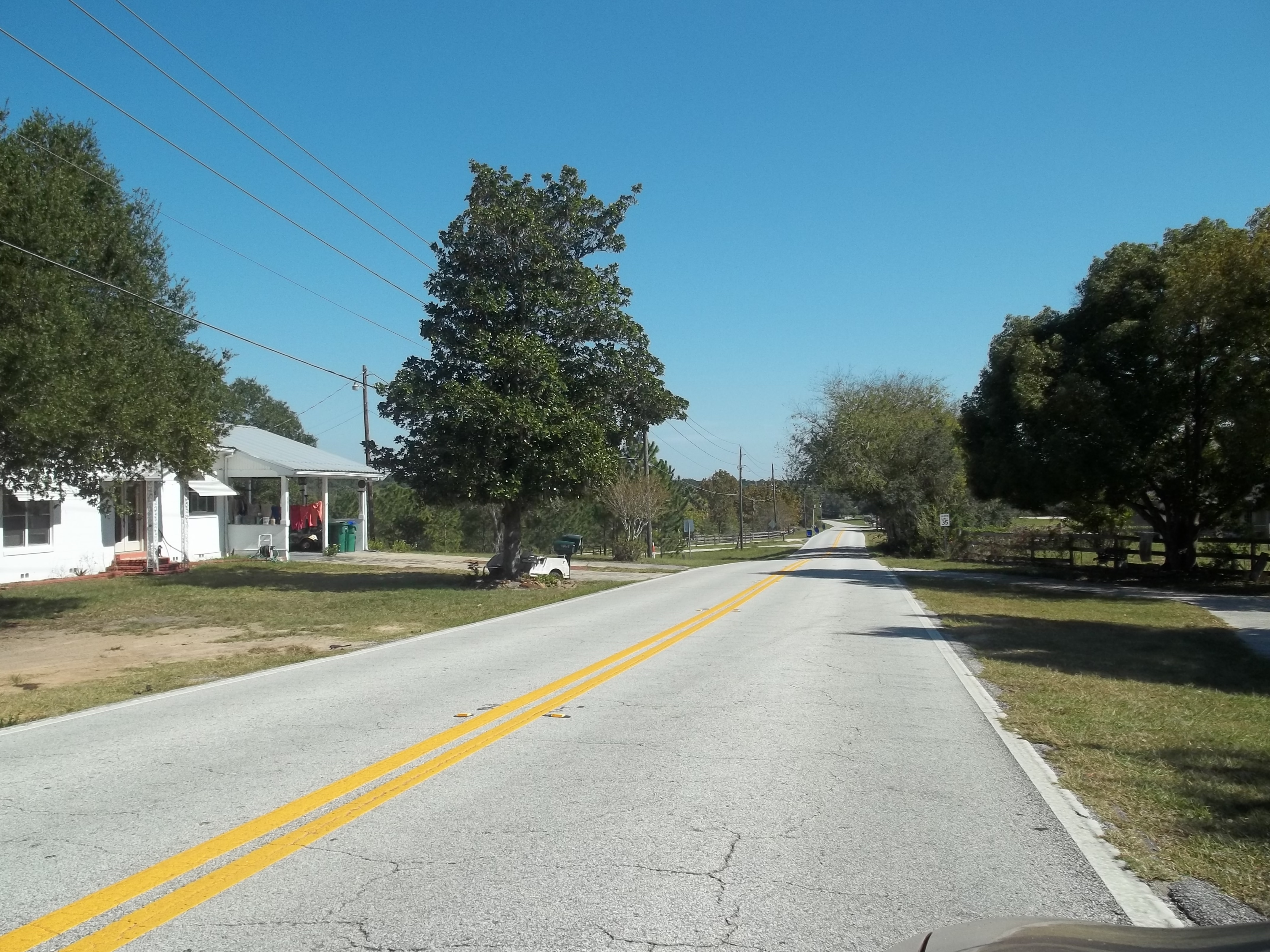 Ferndale, Florida: Part of the Green Mountain Scenic Byway